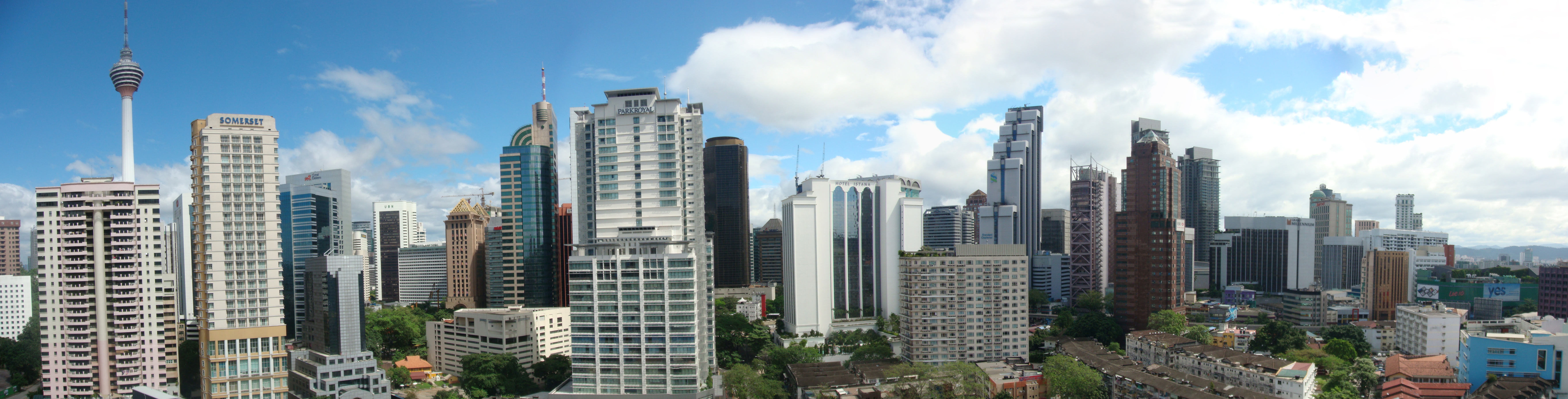 Panoramic view of downtown Kuala Lumpur, taken from a hotel along Changkat Bukit Bintang nightlife district.